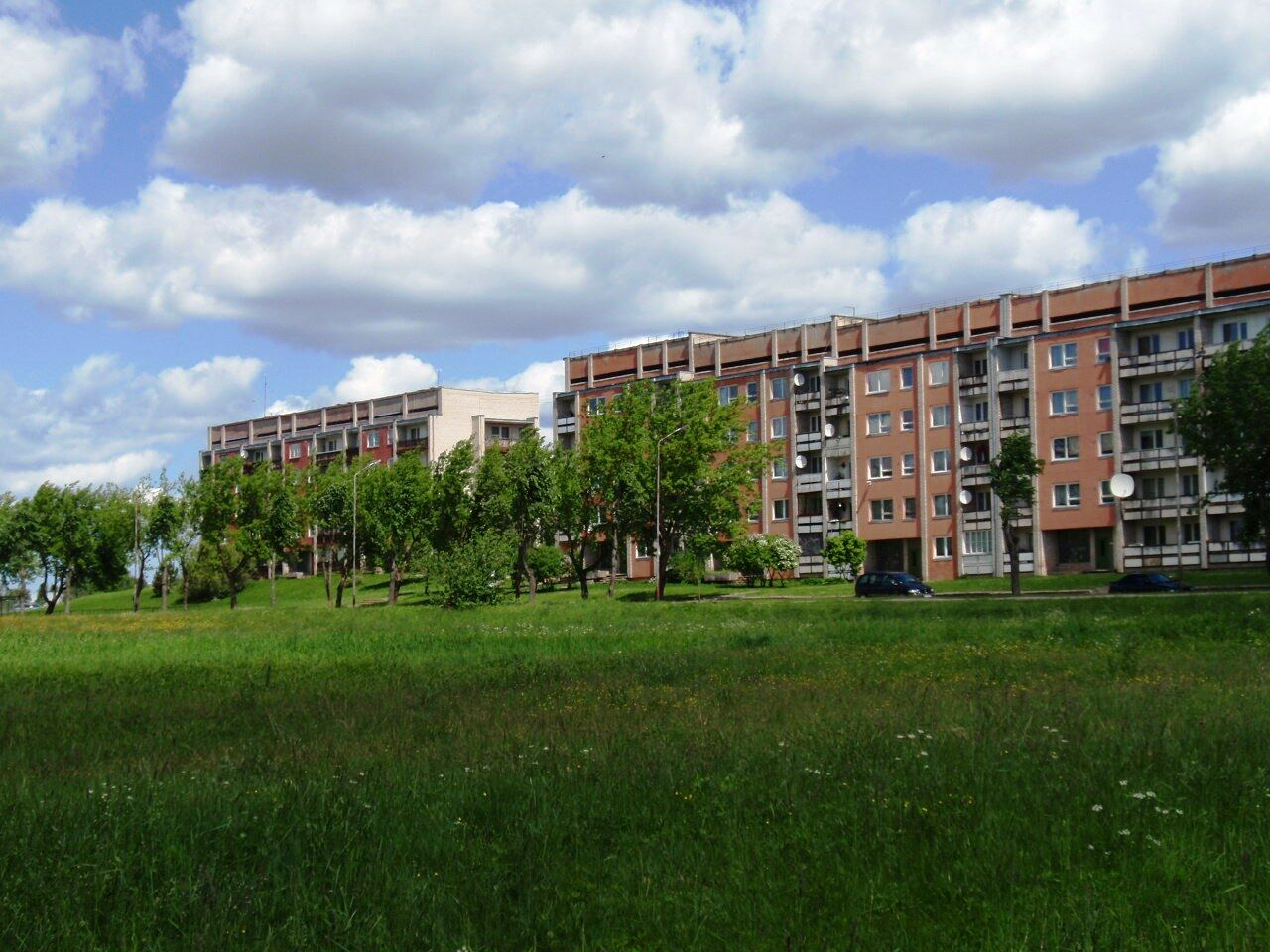 Apartment buildings on Ausekļa iela in Valka, Latvia.